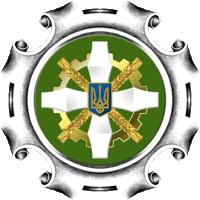 Emblem of the Pension Fund of Ukraine